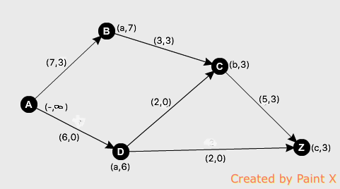 Slika 1.3